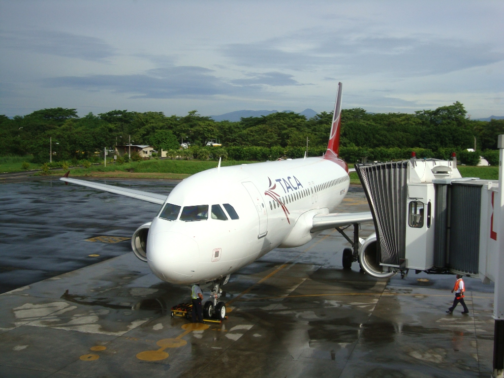 Plane of Taca Airlines.